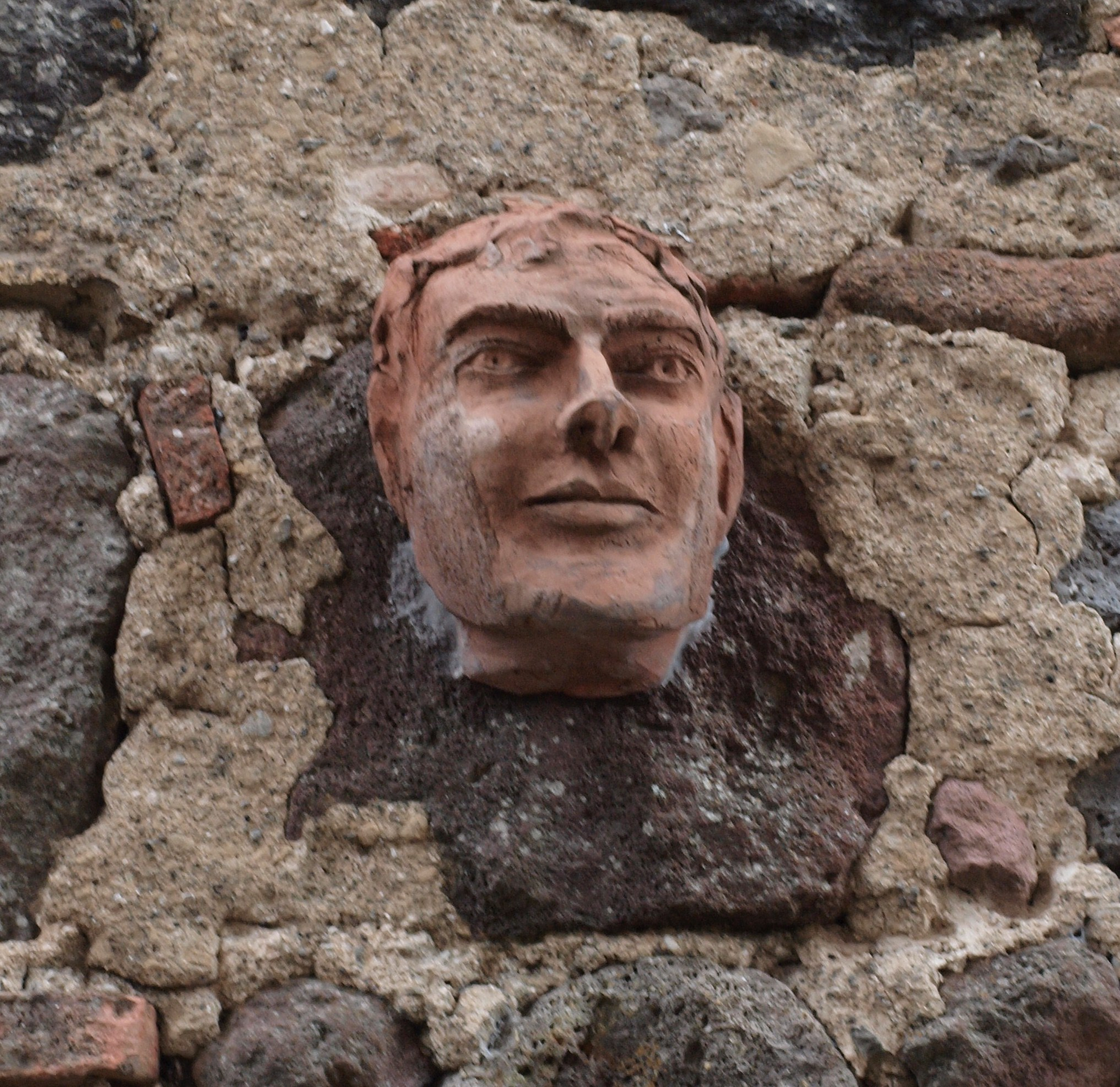 Modern Sculpture by Mutsuo Hirano in Torre Alfina (Latium), Title of image: "Uno Nessuno"